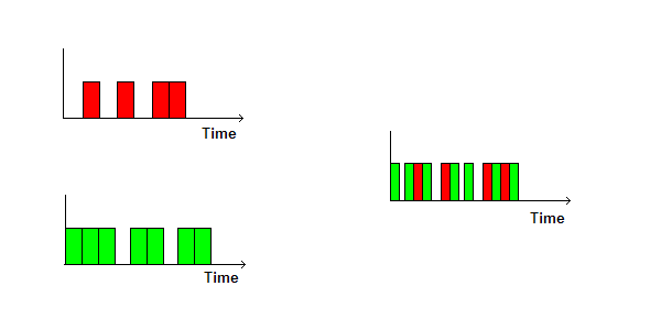 Schematic for time-division multiplexing